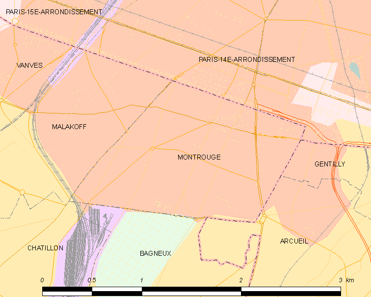 Map of French municipality Montrouge